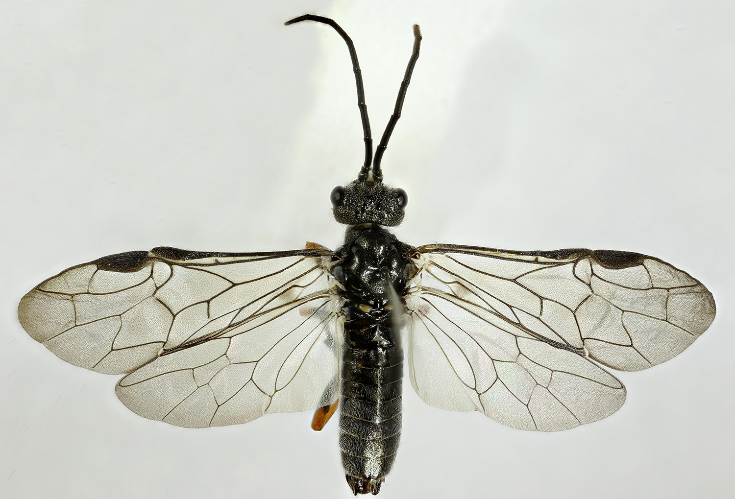 Dolerus gonager, Trawscoed, North Wales, June 2015